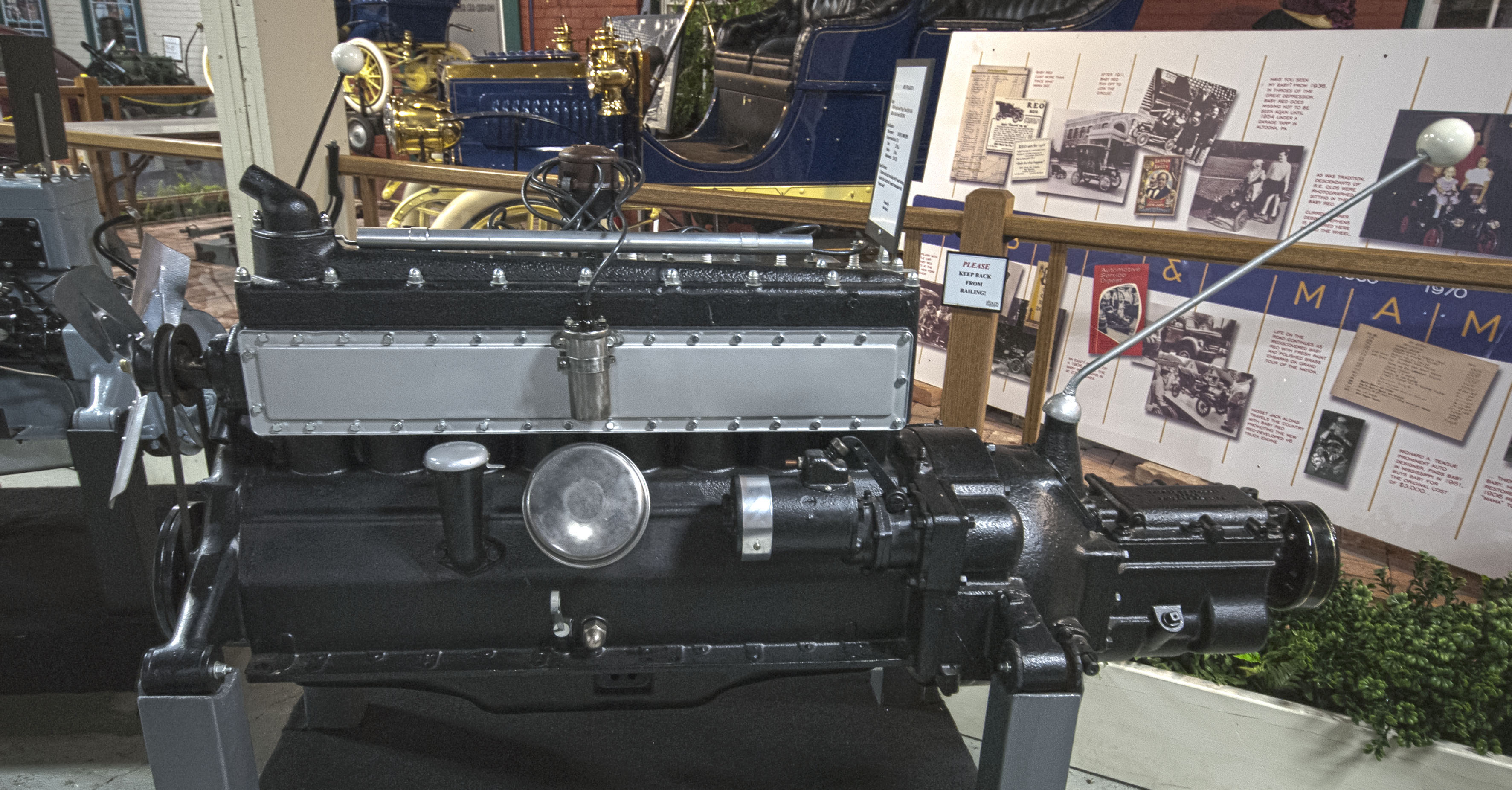 An REO Straight 8 on an engine stand. Produced from 1931 to 1934. Exhibited at the RE Olds Museum in Lansing, MI